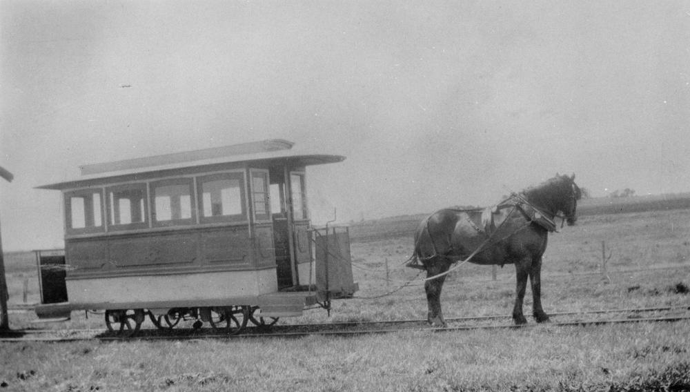 Horsedrawn tram on St. Helena Island, 1928 The horsedrawn tram was used to transport people from the causeway jetty to the prison buildings on the hill. The tram ran on 3'6' guage tracks. Many of the track rails can be seen on the island but have been used as reinforcing for concrete covers on some of the large wells. (Description supplied with photograph.).